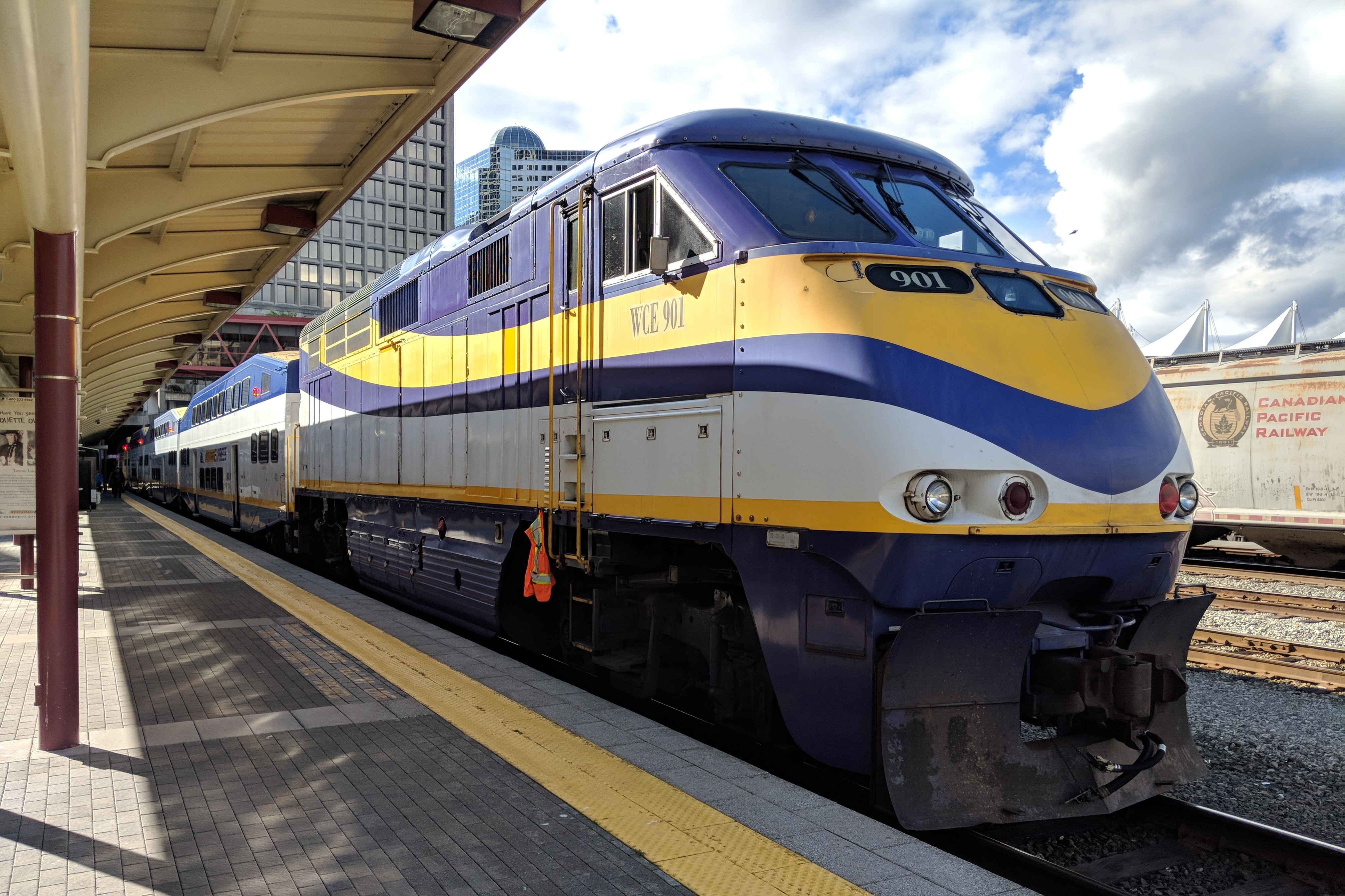 West Coast Express commuter train at Waterfront station in Downtown Vancouver. June 2019.